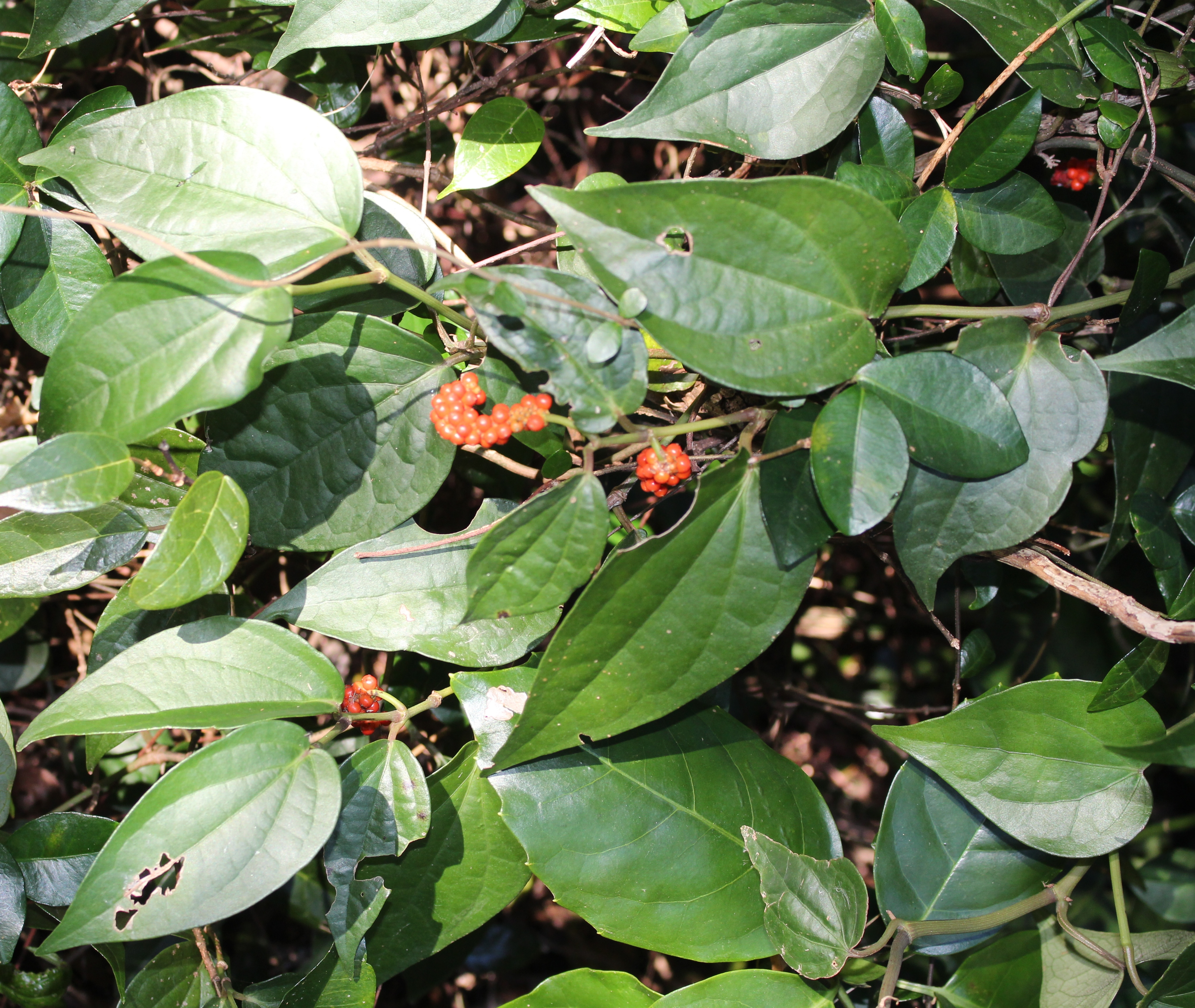 Piper kadsura in Toshi island, Toba, Mie prefecture, Japan.